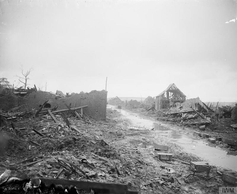 The German Withdrawal To the Hindenburg Line, March-april 1917 Wrecked house in a main street at Miraumont-le-Grand, taken in the British advance of 25 February 1917. March 1917.